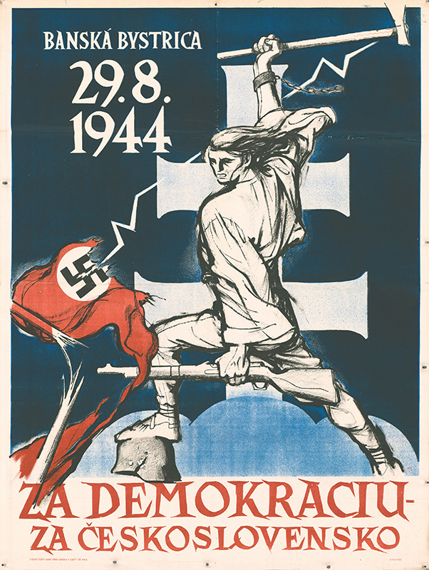 Pro-Slovak National Uprising propaganda